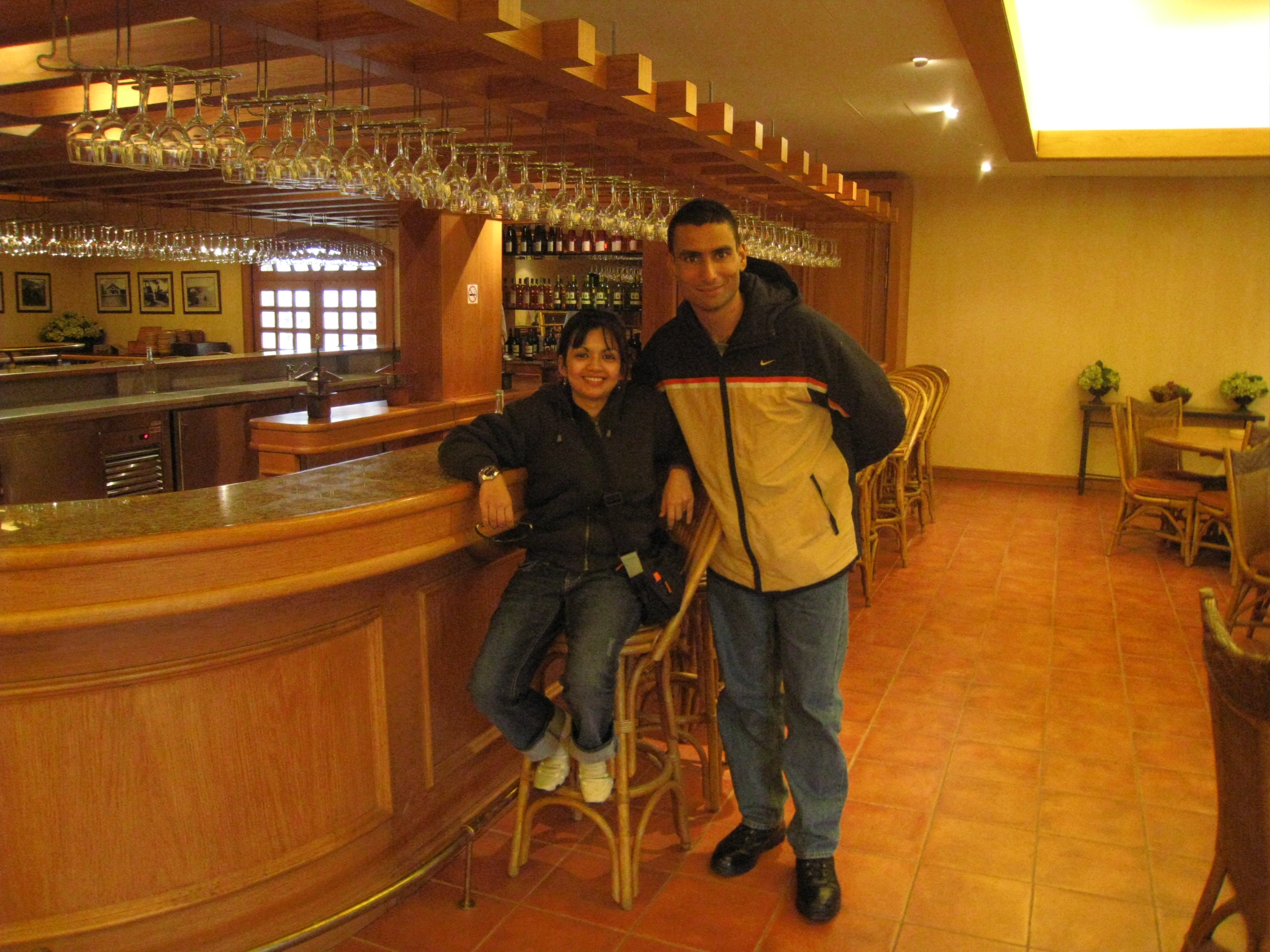 Copyright (C) 2006 Capt JV Benjamin (14 MARATHA LI)